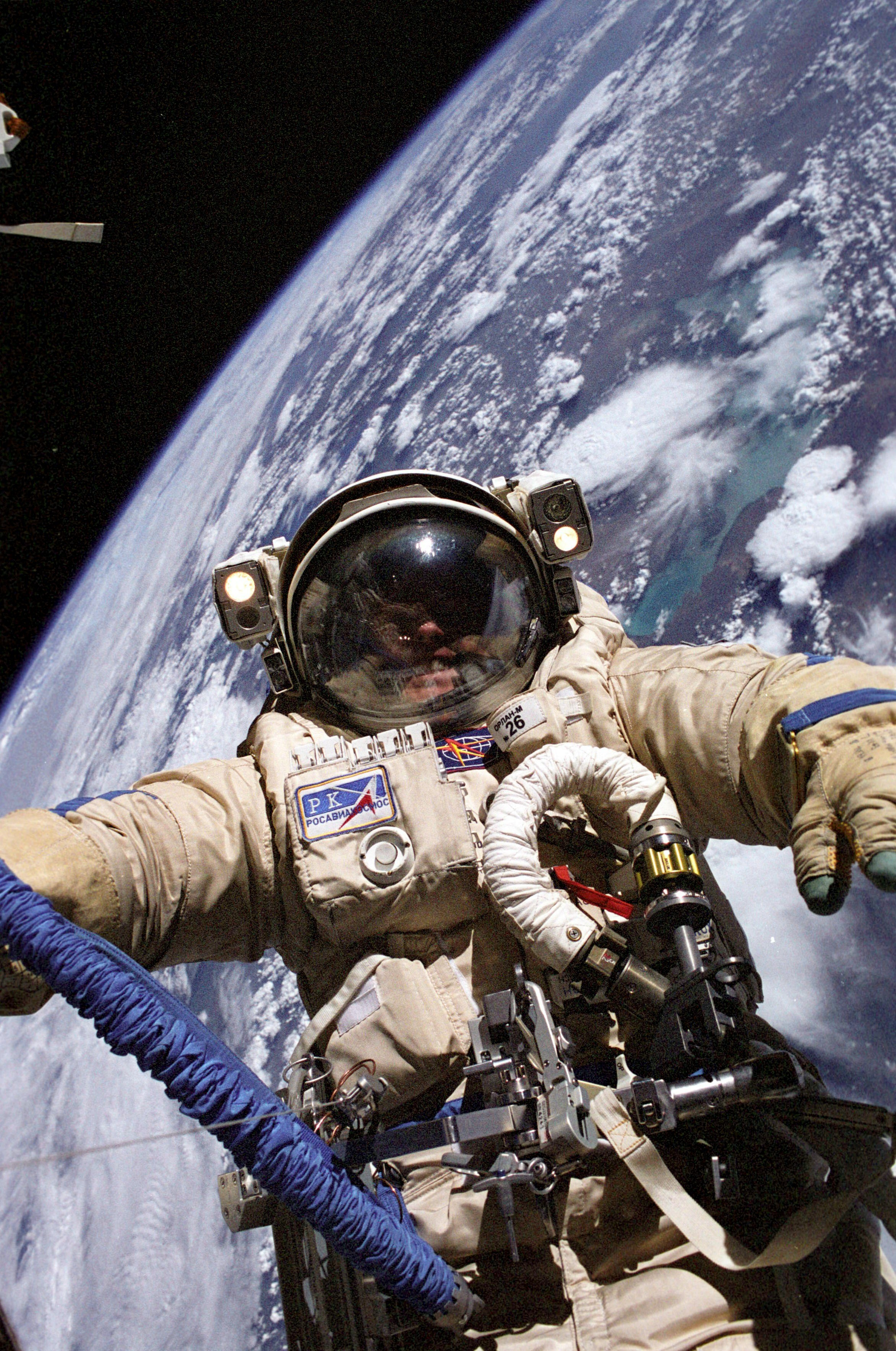 Astronaut Edward M. (Mike) Fincke, Expedition 9 NASA ISS science officer and flight engineer, wearing a Russian Orlan spacesuit, participates in the third of four sessions of extravehicular activities (EVA) performed by the Expedition 9 crew during their six-month mission. Fincke and cosmonaut Gennady I. Padalka (out of frame), commander representing Russia's Federal Space Agency, spent 4 ½ hours outside the Station swapping out experiments and installing hardware associated with Europe’s Automated Transfer Vehicle (ATV), scheduled to launch on its maiden voyage to ISS next year. A cloudy Earth provided the backdrop for the image. According to a label on his chest, he is wearing a Orlan-M suit.